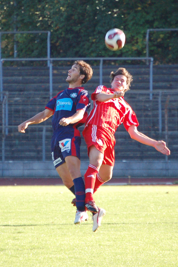 Cologne FC vs. Xanthi FC (October 13, 2007)